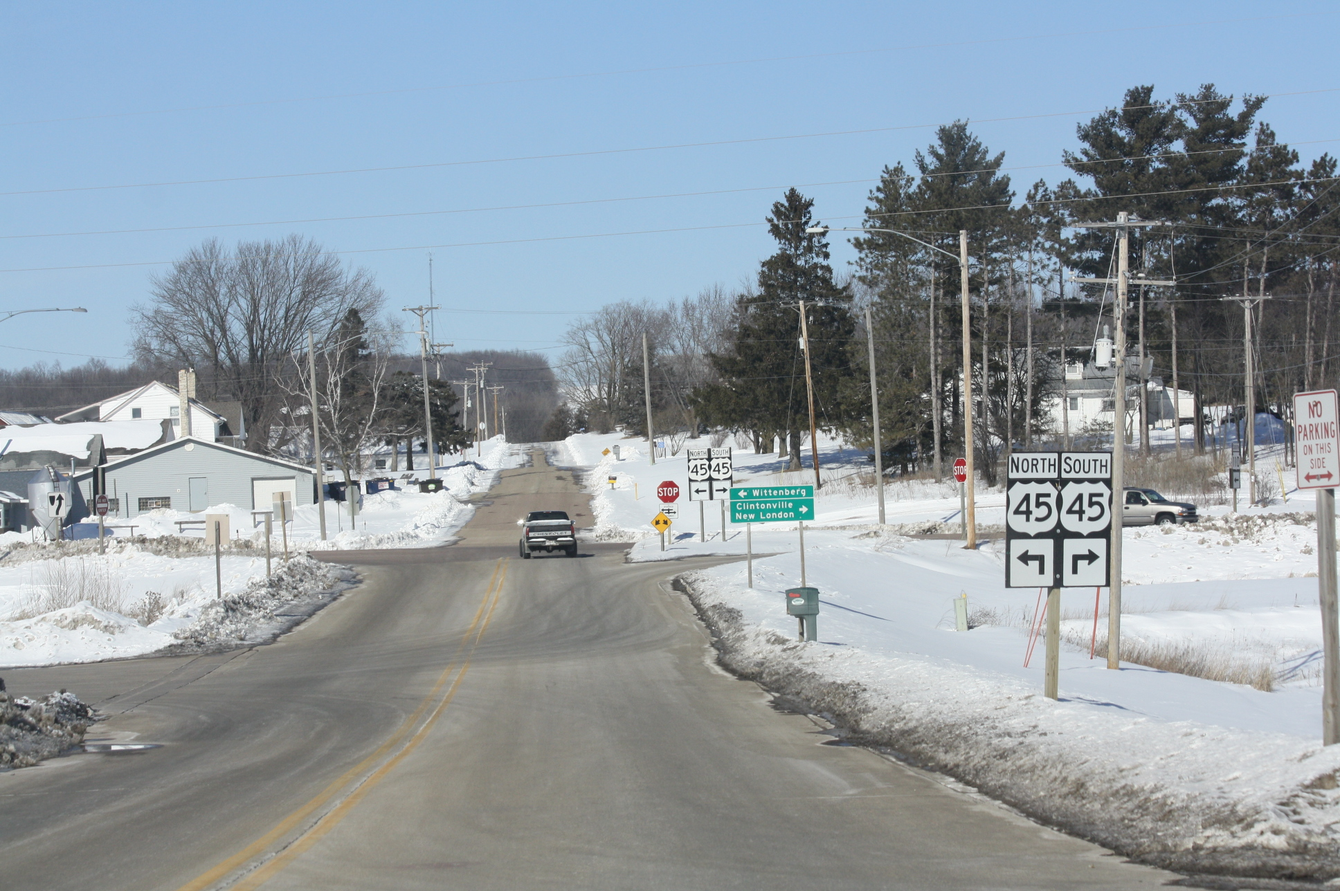 Looking north at the northern terminus of Wisconsin Highway 110 at Marion, Wisconsin.